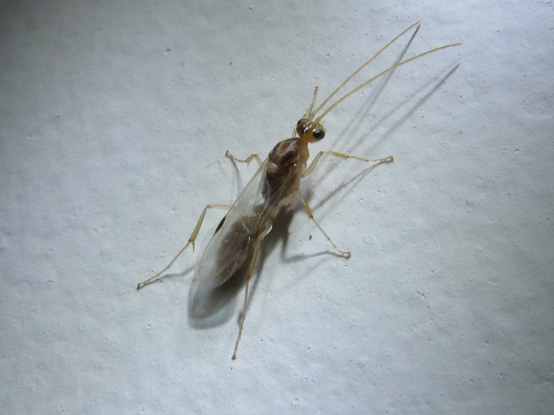 Wing ant. Flying ant.